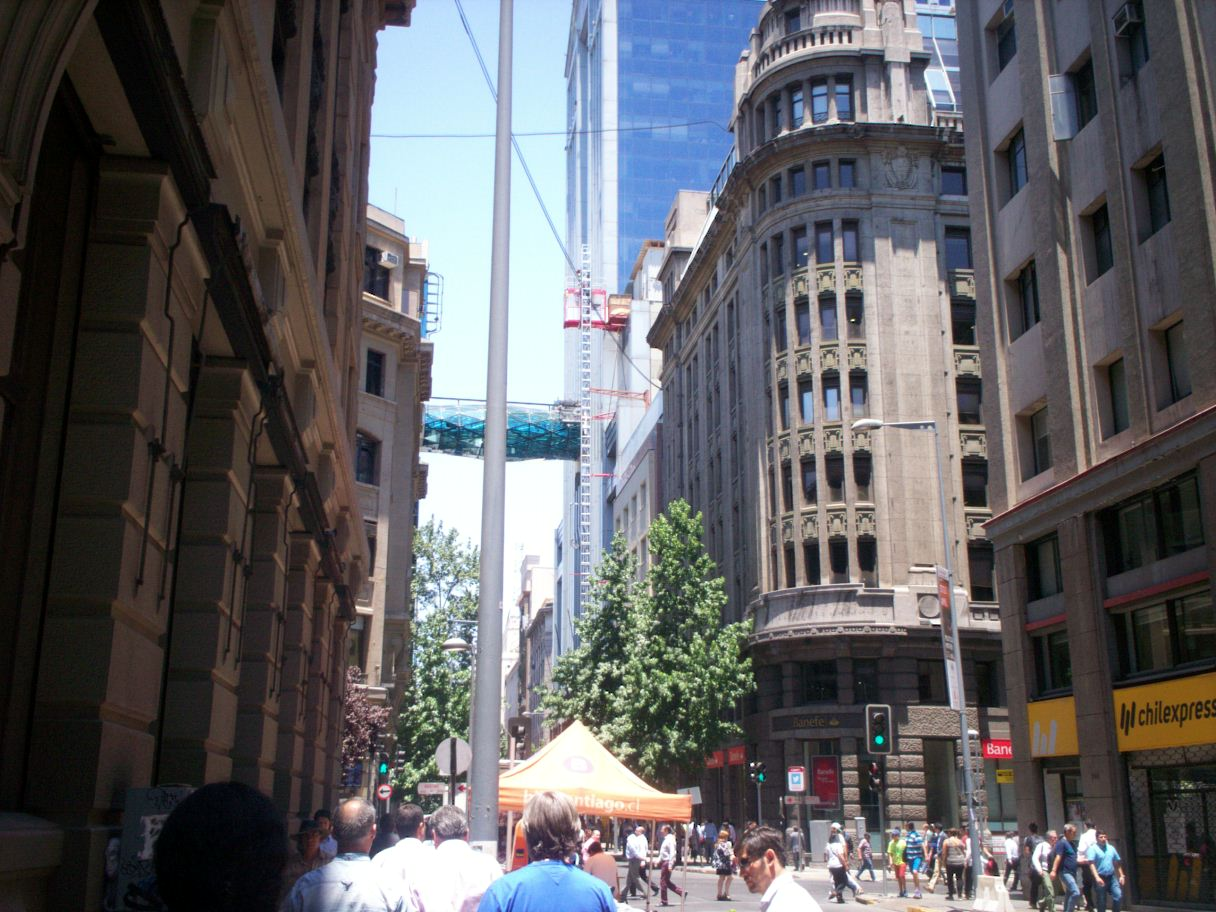 Santiago de Chile - Bandera